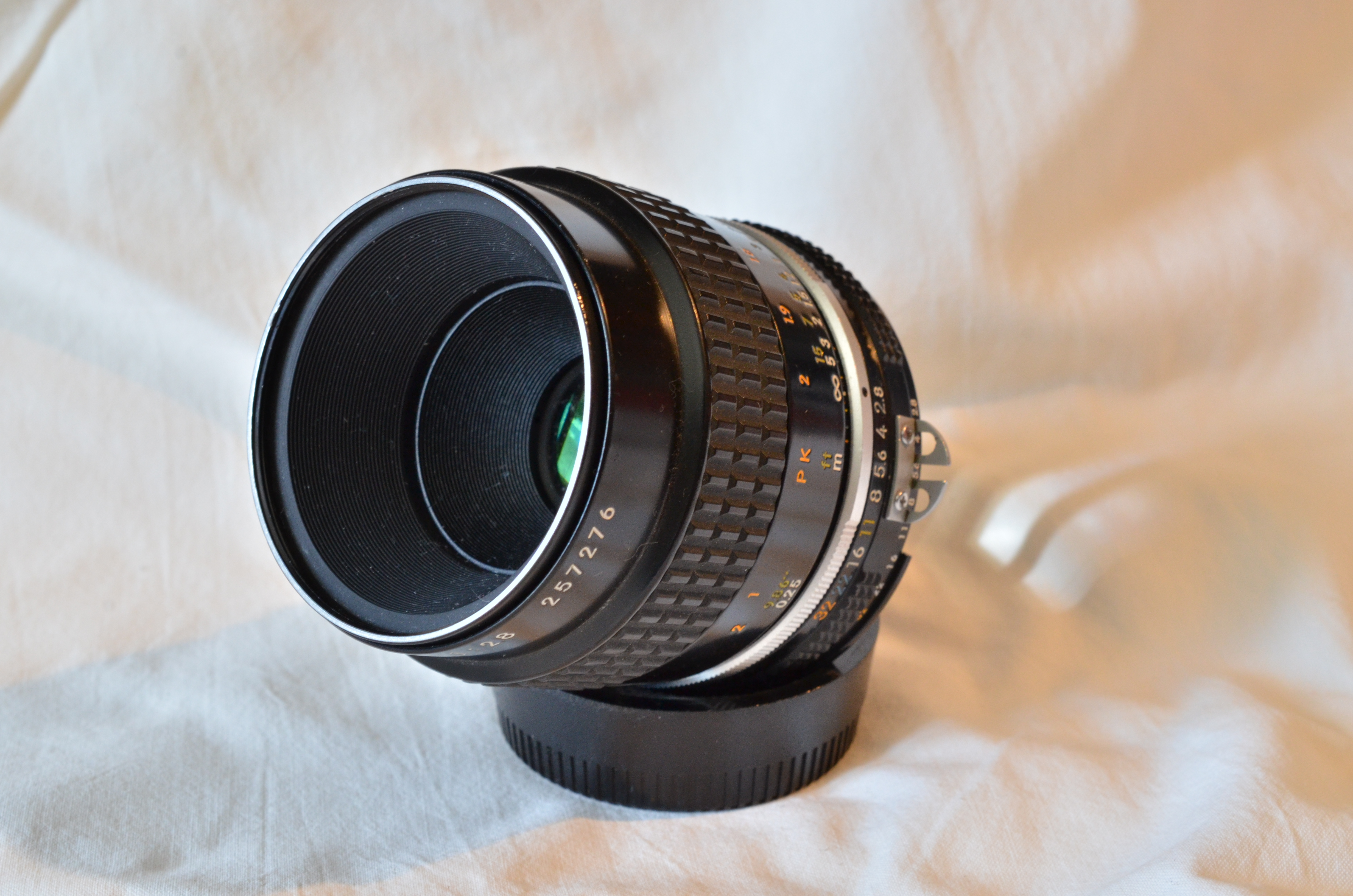 Nikon standard macro lens